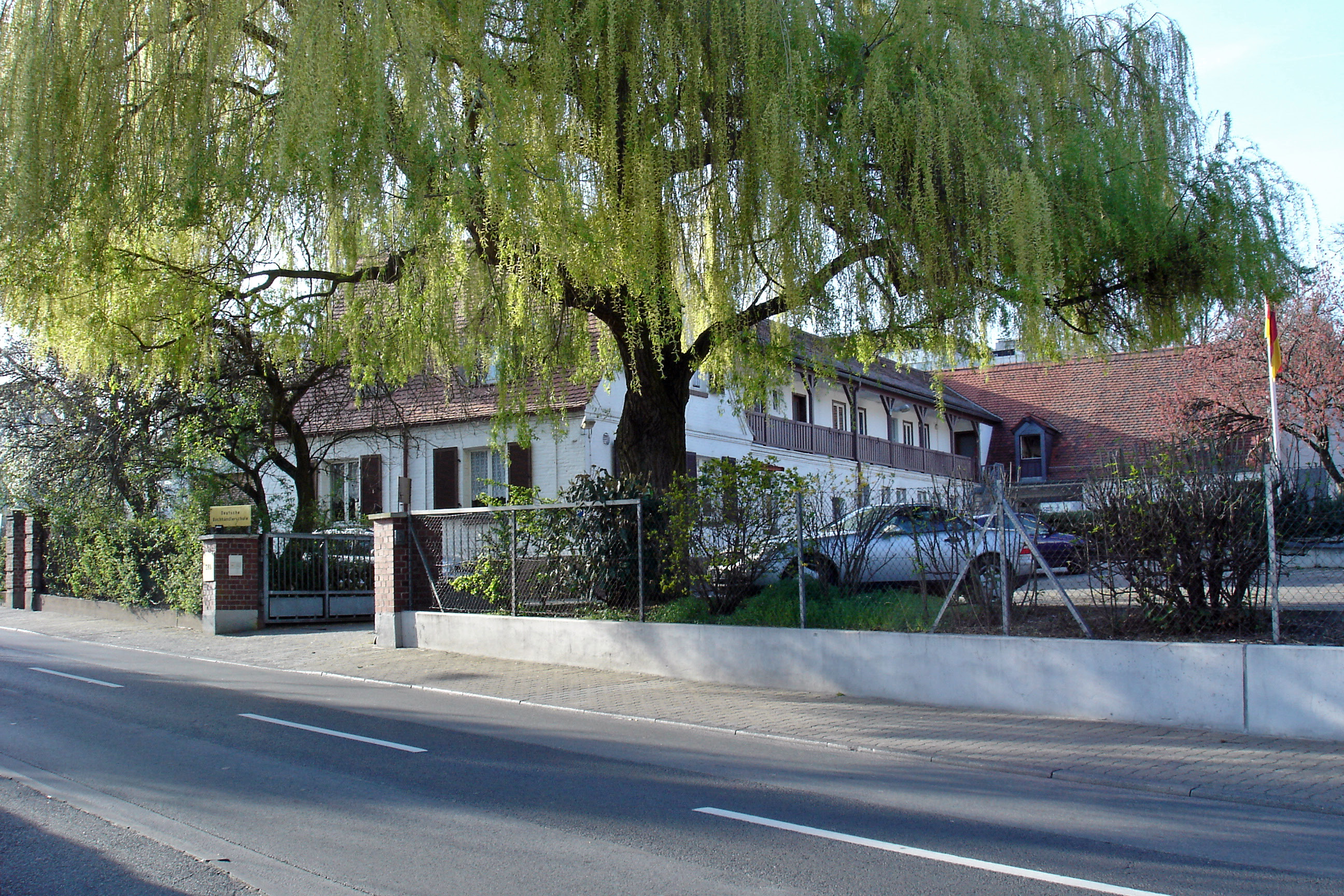 Entrance to schools of German Book-Trade in the borrough of Seckbach in Frankfurt, Hesse, Germany